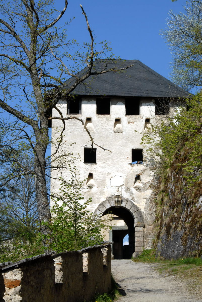 Weapon gate #10 at castle Hochosterwitz, municipality Sankt Georgen am Längsee, district Sankt Veit an der Glan, Carinthia, Austria, EU